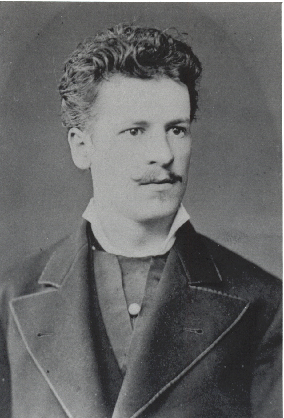 Portrait photo of 25-year-old Julius Neubronner, later inventor of aerial photography by pigeon camera.